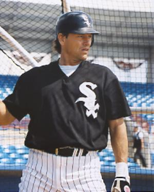 Fisk in batting cage